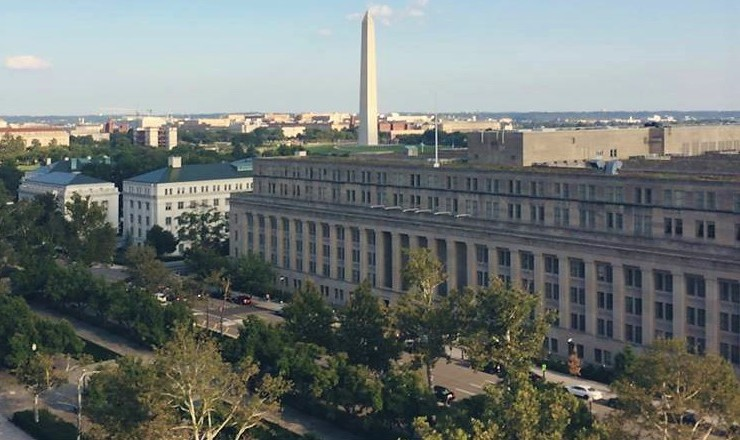 View from the rooftop of the GW Elliott School